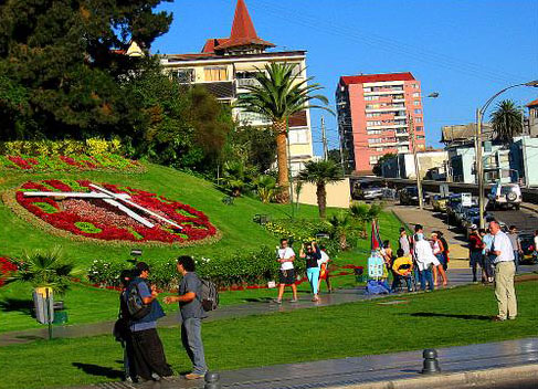 Flowers' clock, at Viña del Mar, Chile